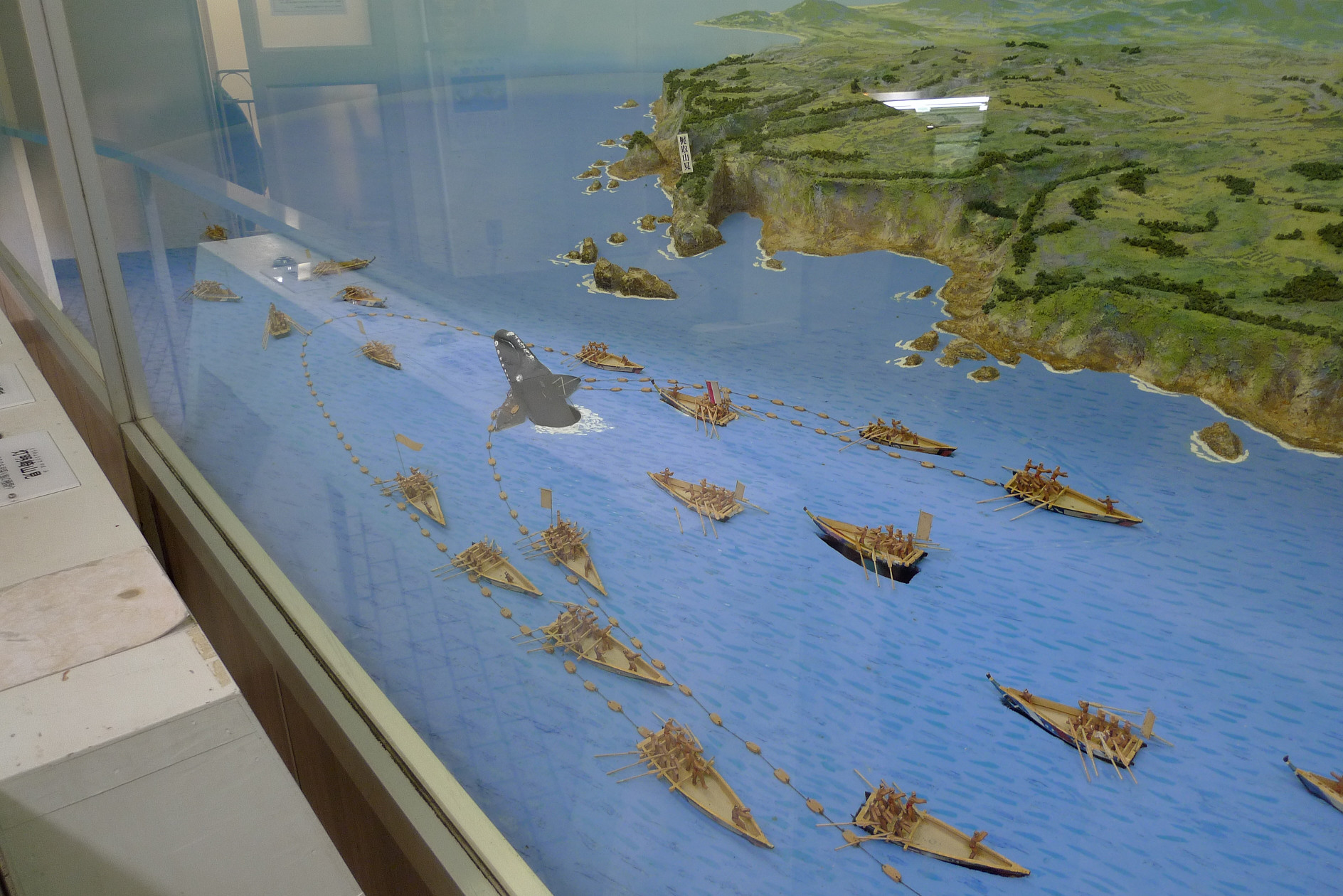 Traditional whaling diorama, Taiji Whale Museum, Taiji town, Higashimuro-gun, Wakayama pref, Japan